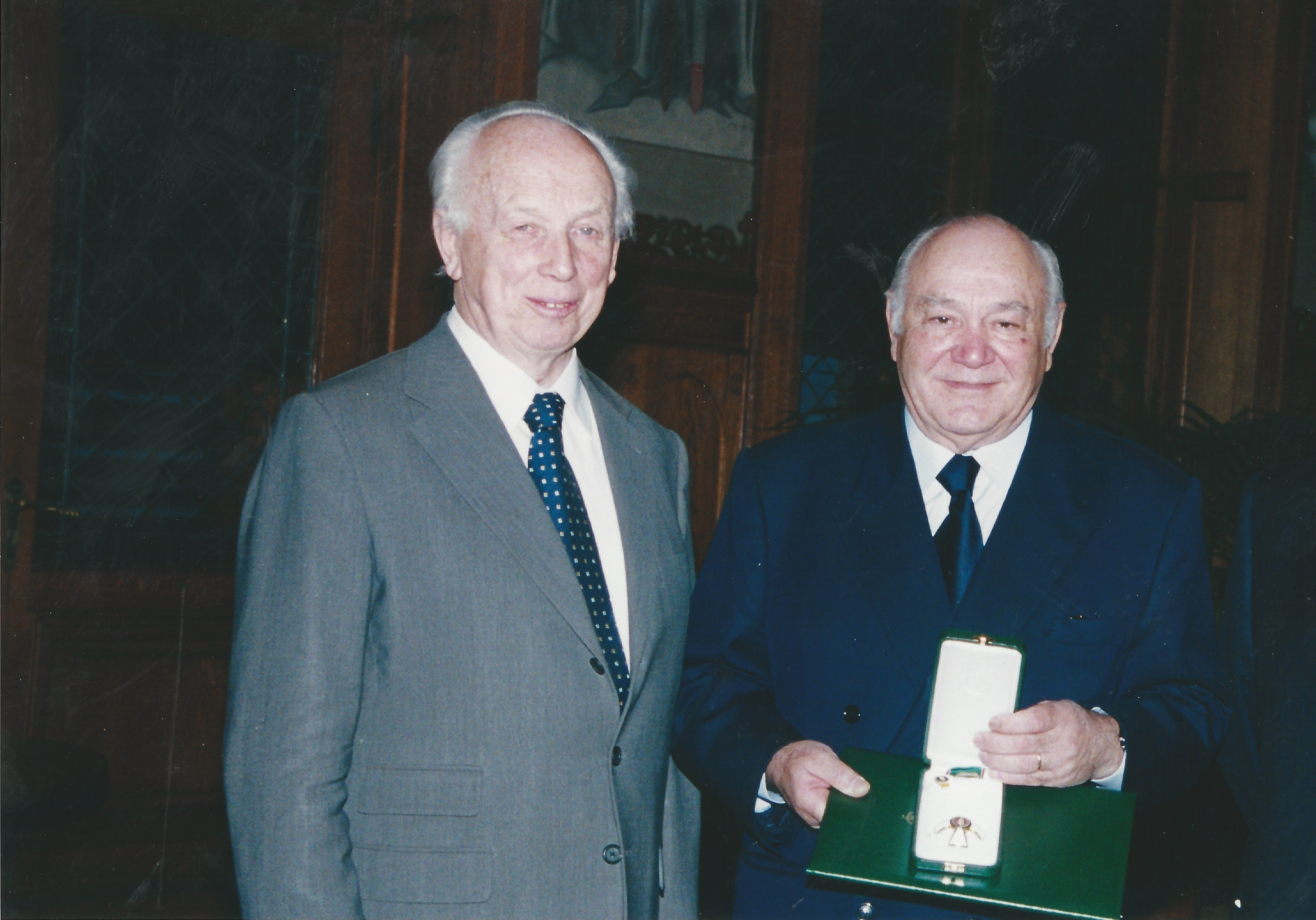 Με τον Πρόεδρο της Δημοκρατίας της Ουγγαρίας κύριο Ferenc Madl από την τελετή απονομής του Μεγαλόσταυρου του Τάγματος της Αξίας της Ουγγρικής Δημοκρατίας (Officer-Cross for Merit of the Hungarian Republic) το Νοέμβριο του 2000